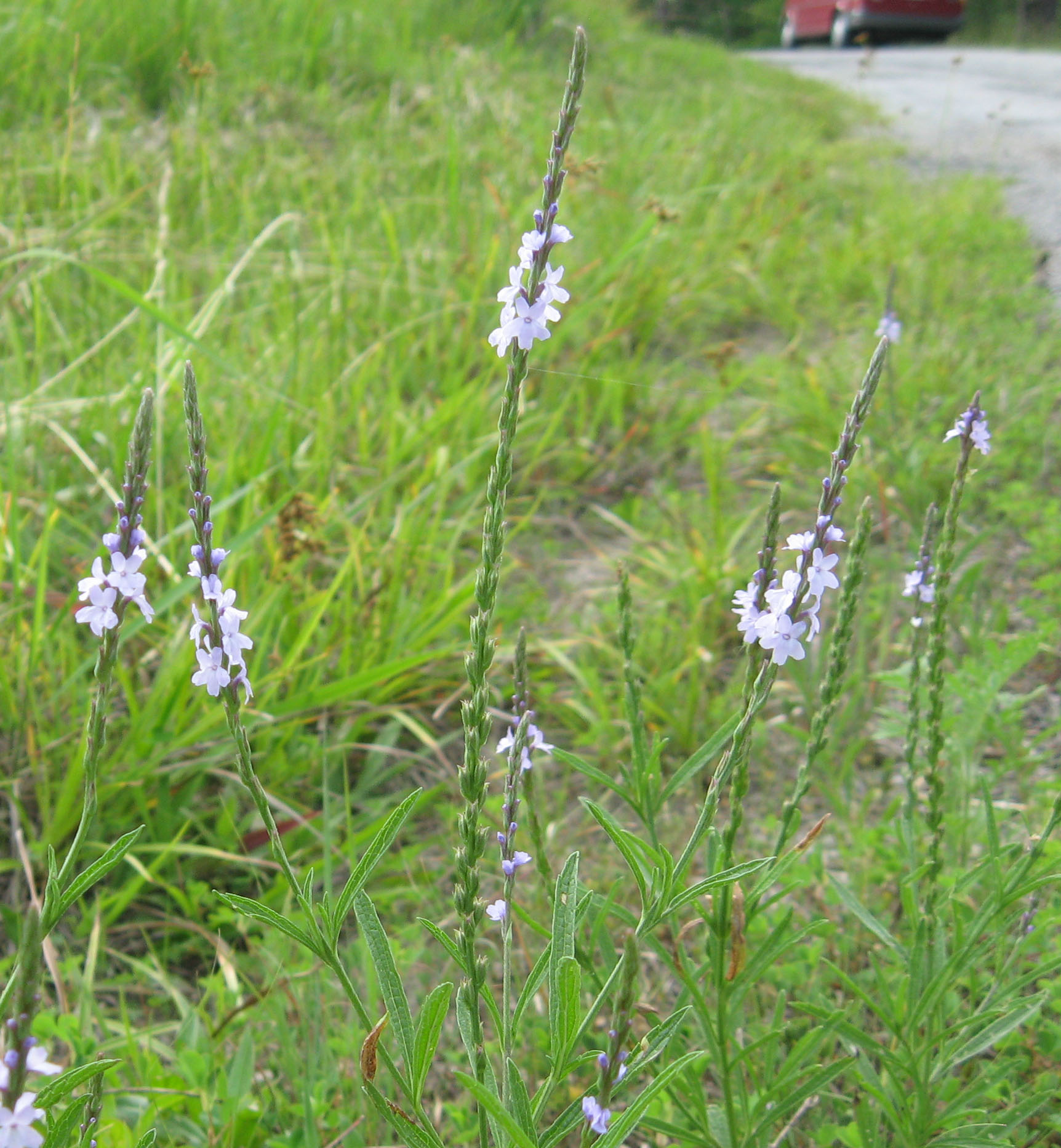 Verbena simplex, roadside beside high quality prairie remnant near Pennyrile Forest State Resort Park, Christian County, Kentucky.